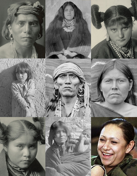 Collage of public domain images of Hopi.